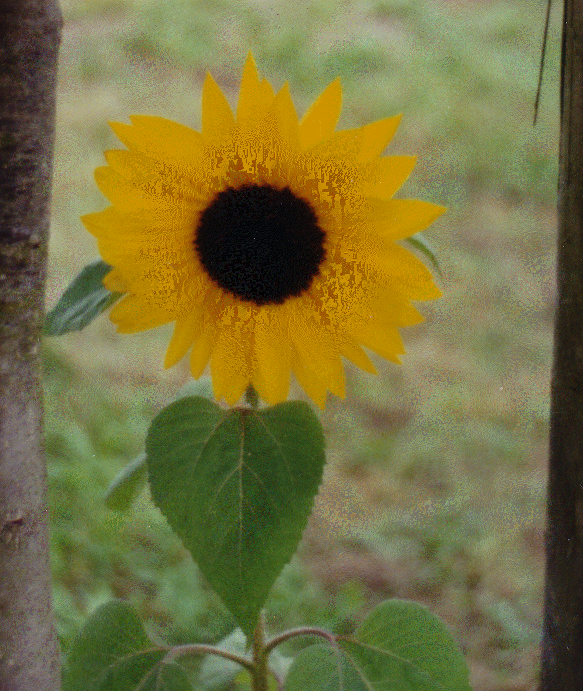 Flower of a Sunflower as GIF(Graphics Interchange Format) photo